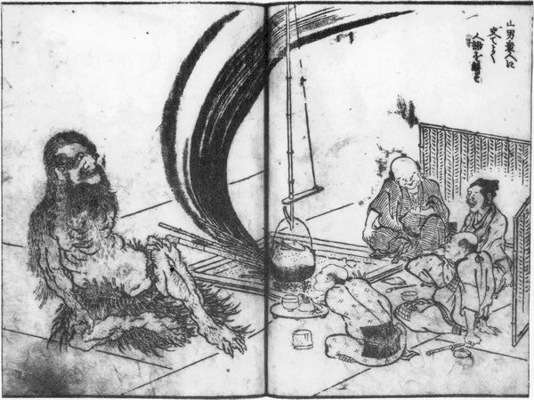 Yama-otoko (the giant mountain man)